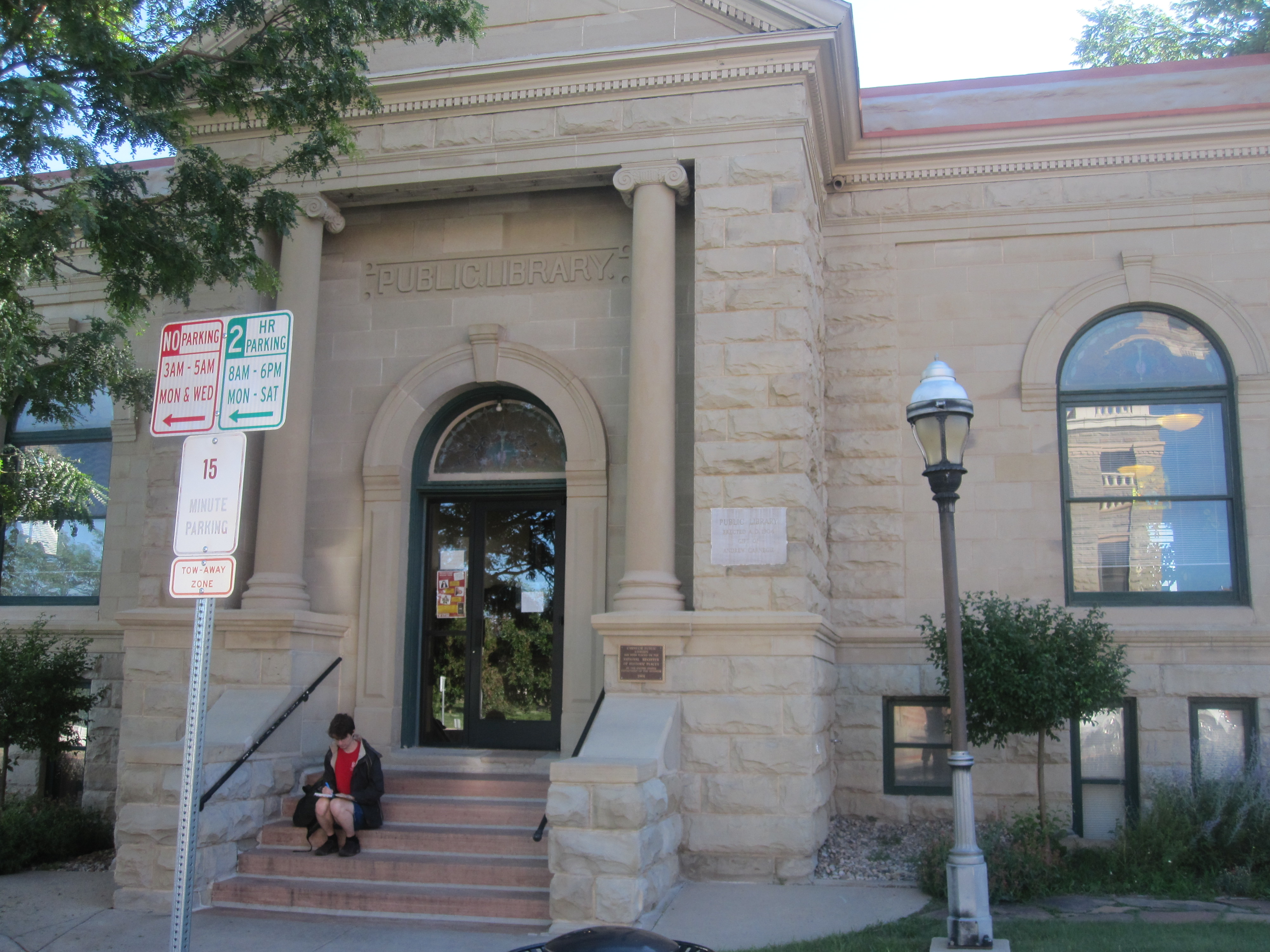 I took photo with Canon camera in Trinidad, CO.